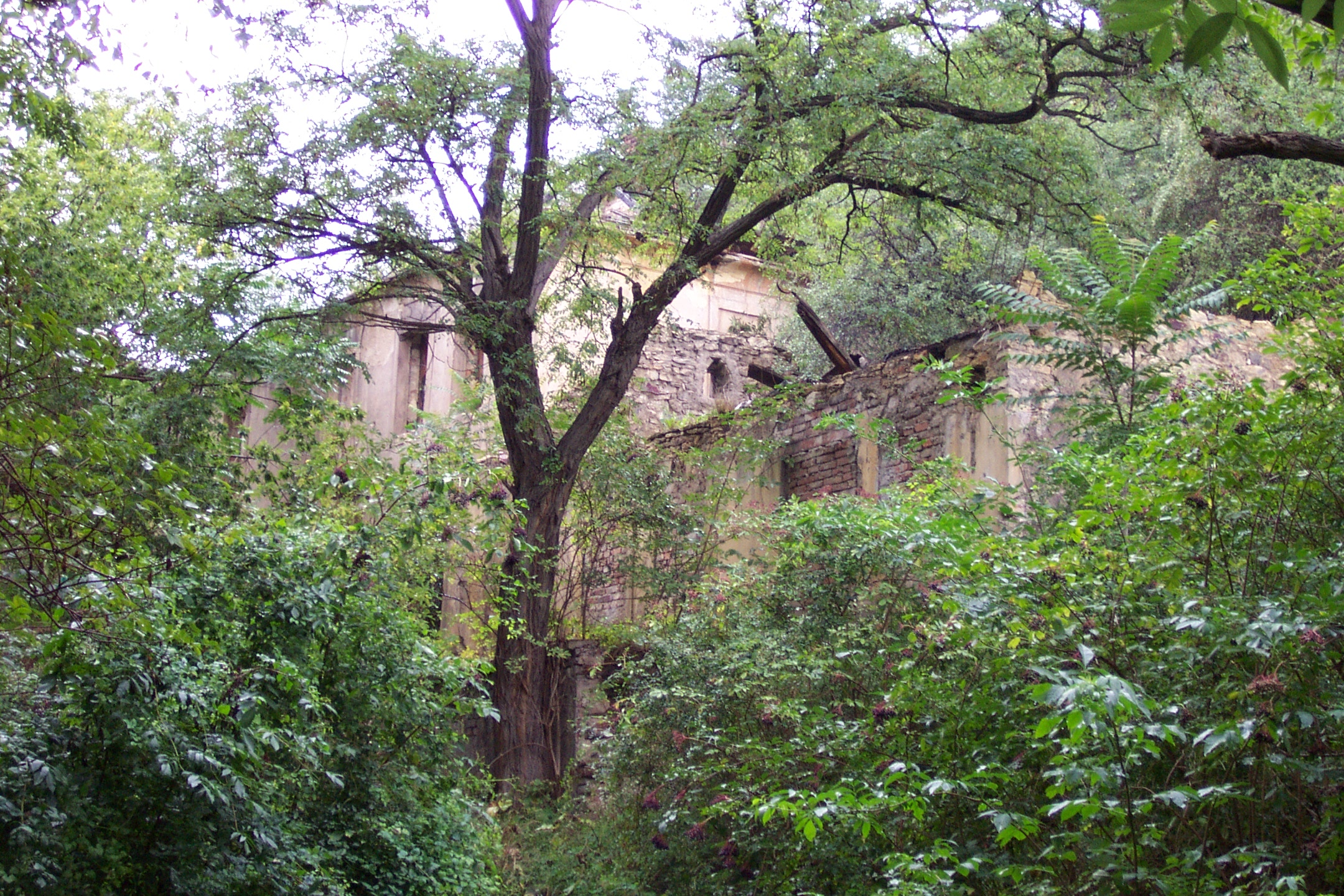 Ruins of Buďánka colony in Prague-Smíchov, CZ